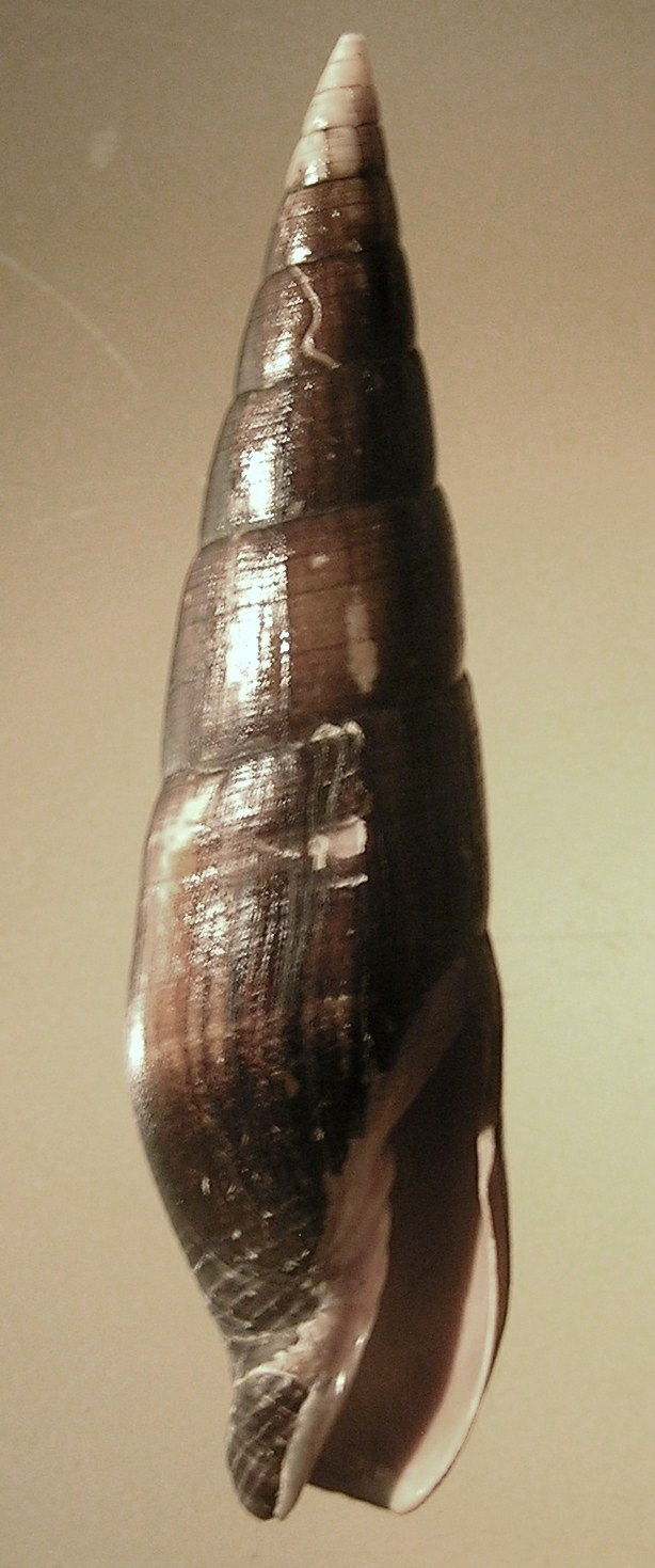 Mitra (Mitra) glabra Swainson, 1821, a miter snail from the family Mitridae; Tasmania. Baker Beach. Category:Mitridae